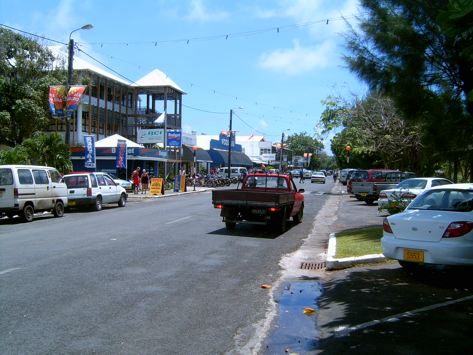 Main street of Avarua, the capital of Rarotonga.